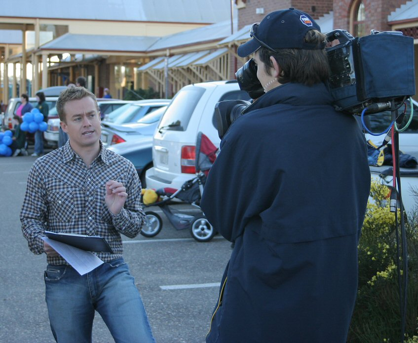 Grant Denyer presenting the weather during his "Weather Wagon" tour of Australia Shot on 11/10/2005 at Cootamundra NSW Australia